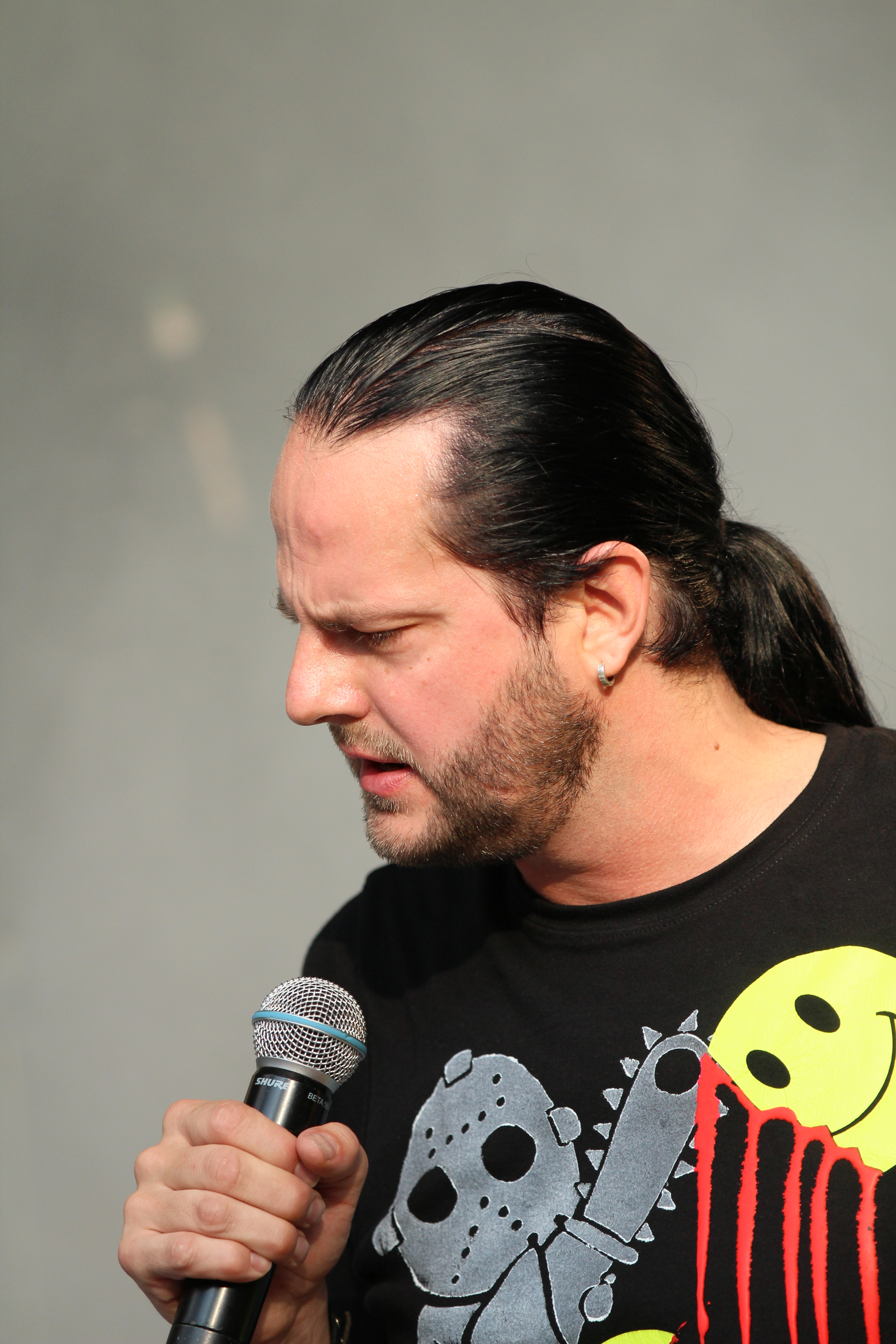 The German dark alternative band Henke at the Nocturnal Culture Night 9 2014 in Deutzen/Germany